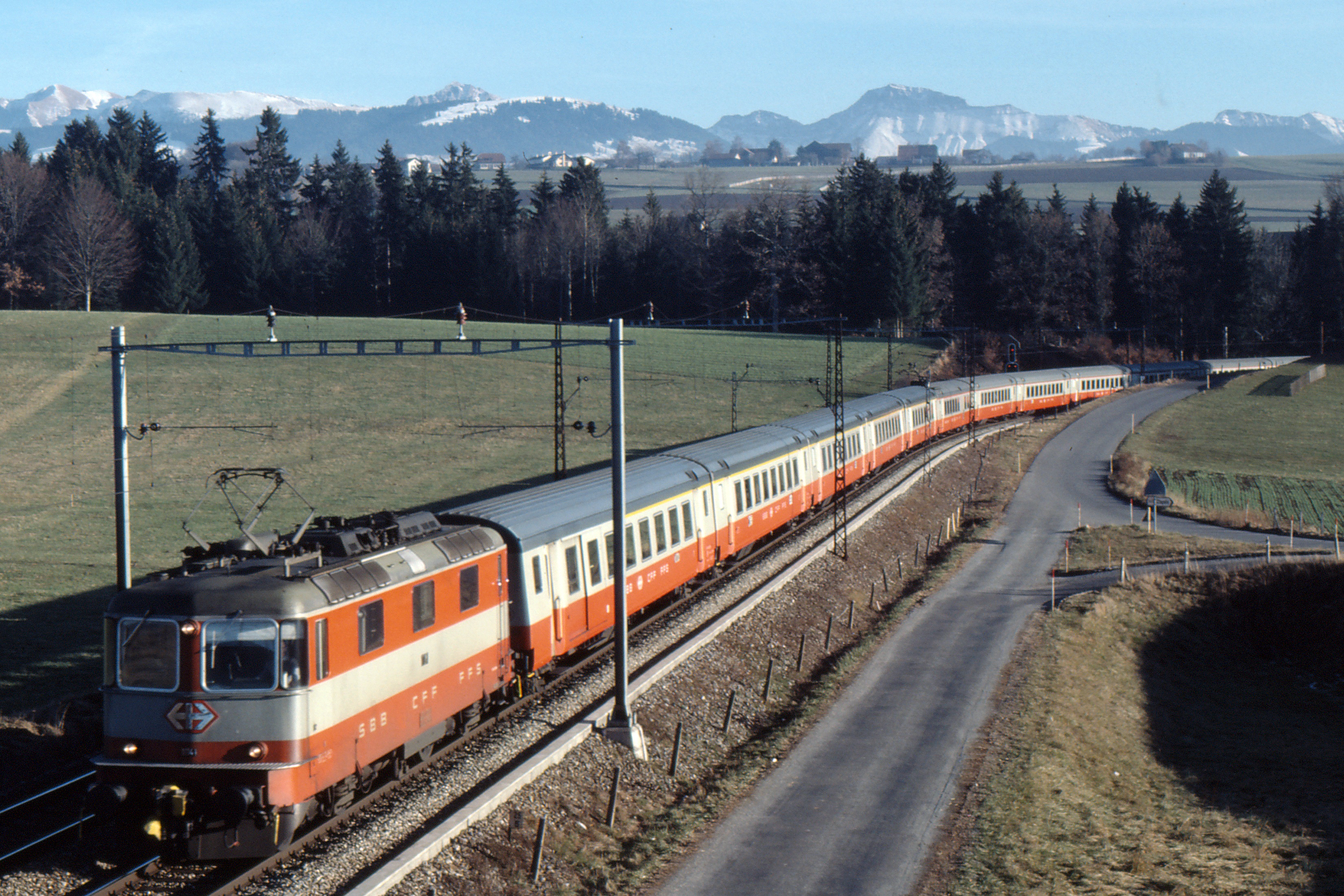 Swissexpress towed by Re 4/4 II